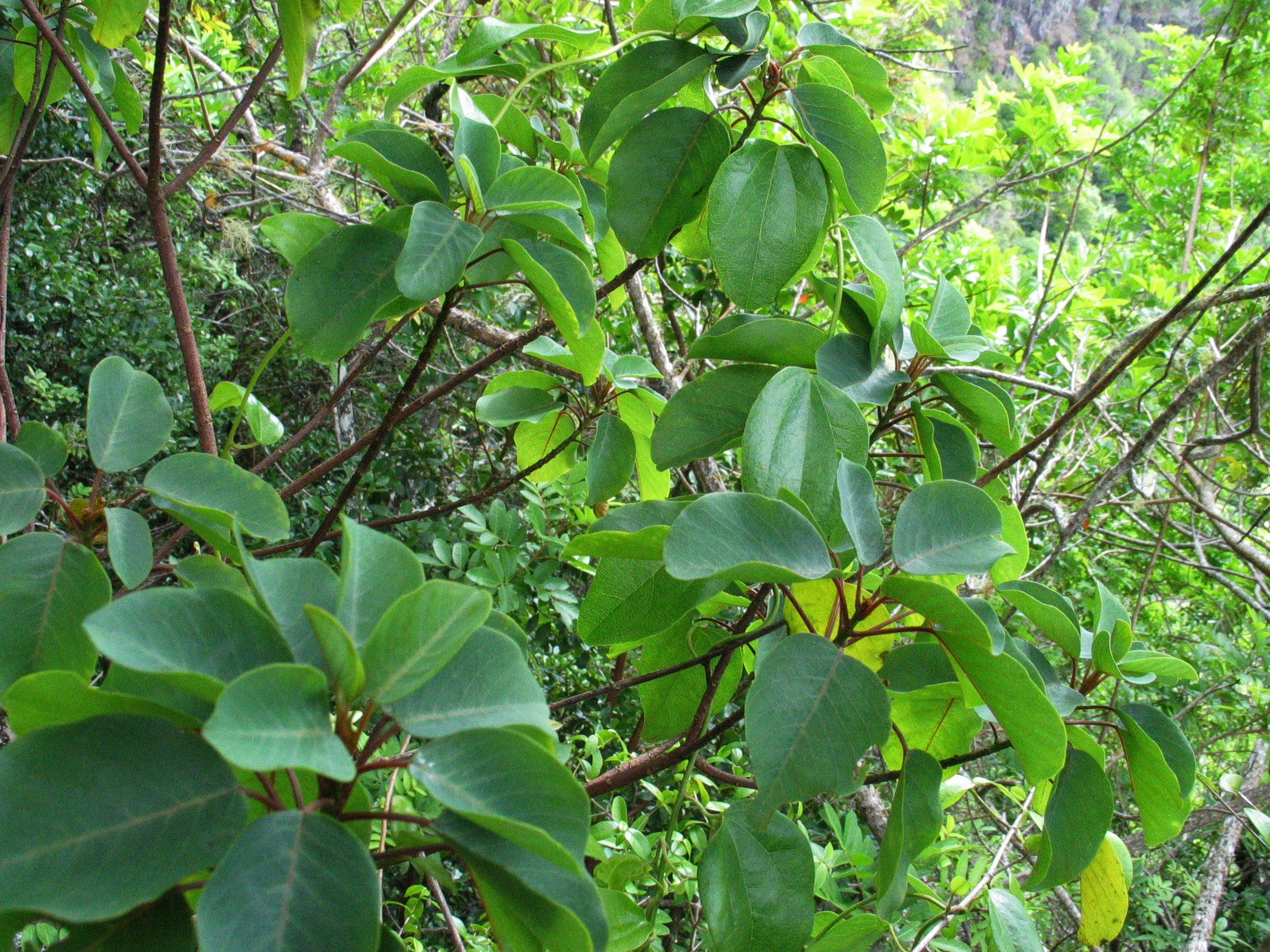 Smoothfruit chewstick Rhamnaceae Endemic to the Hawaiian Islands Endangered Waiʻanae Mountains, Oʻahu